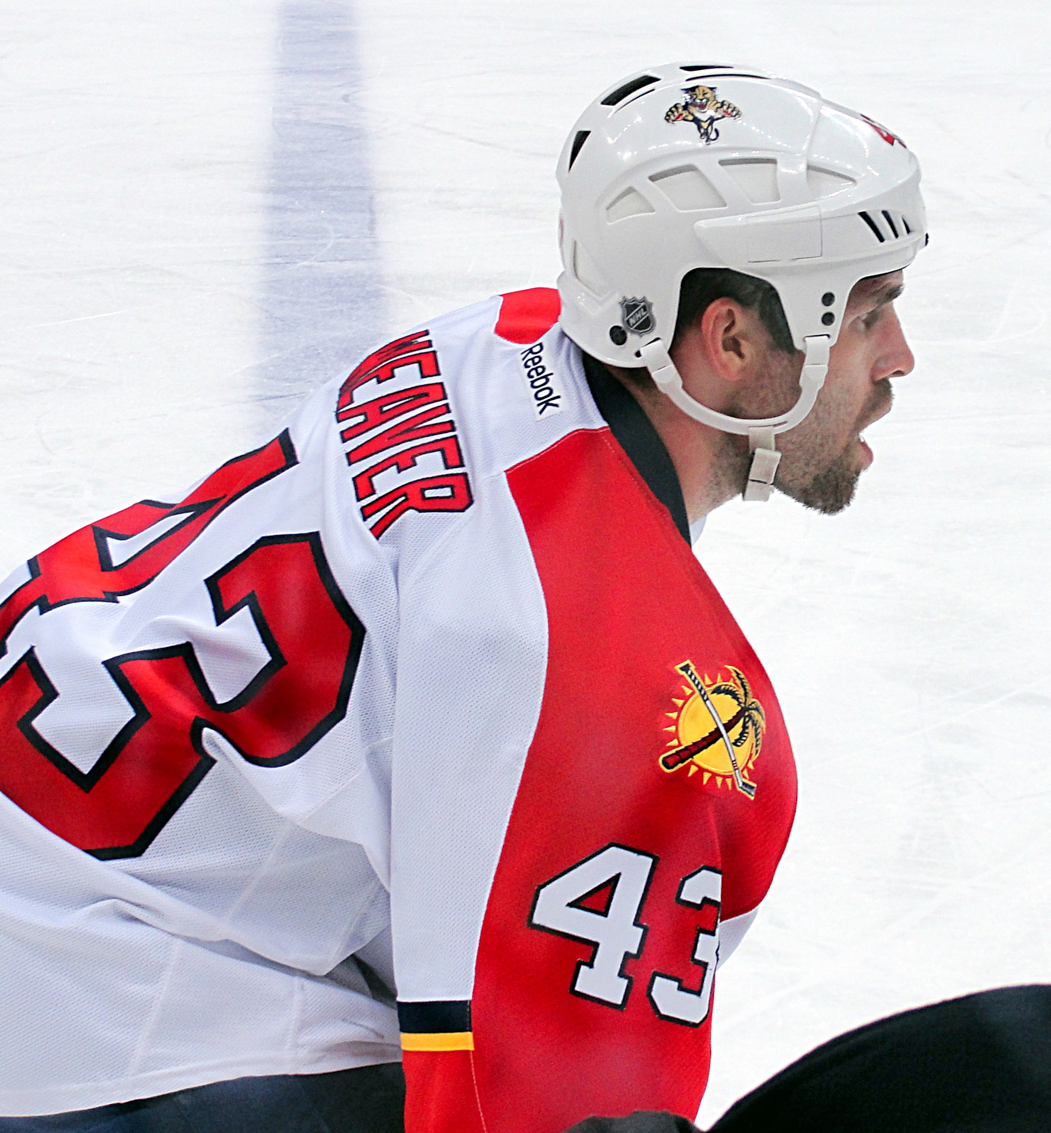 Florida Panthers defenseman Mike Weaver skates against the Pittsburgh Penguins, March 9, 2012 at Consol Energy Center in Pittsburgh, PA.